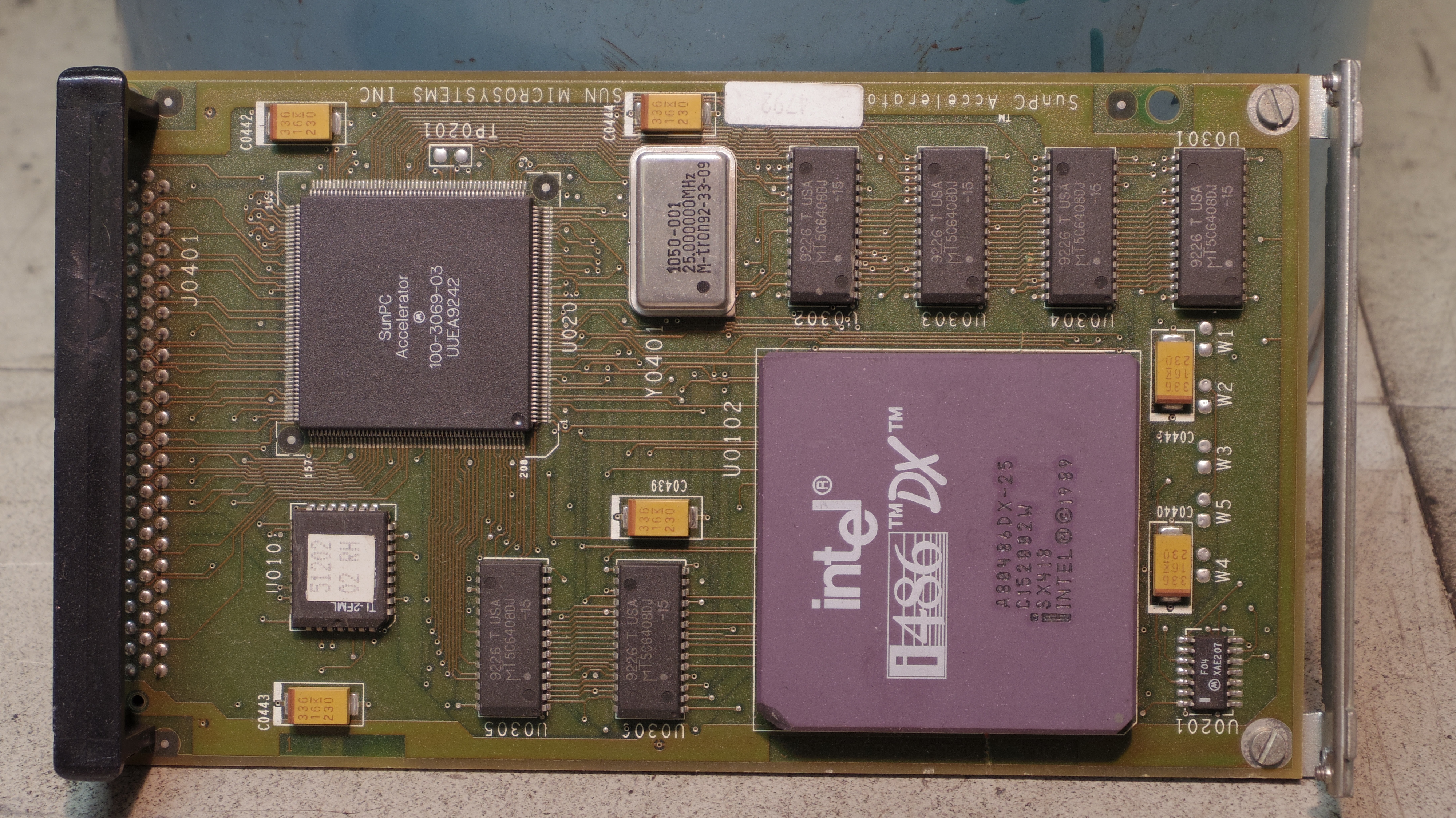 The SunPC Accelerator DX is an SBus card that contains a 25 MHz 486DX accelerator.